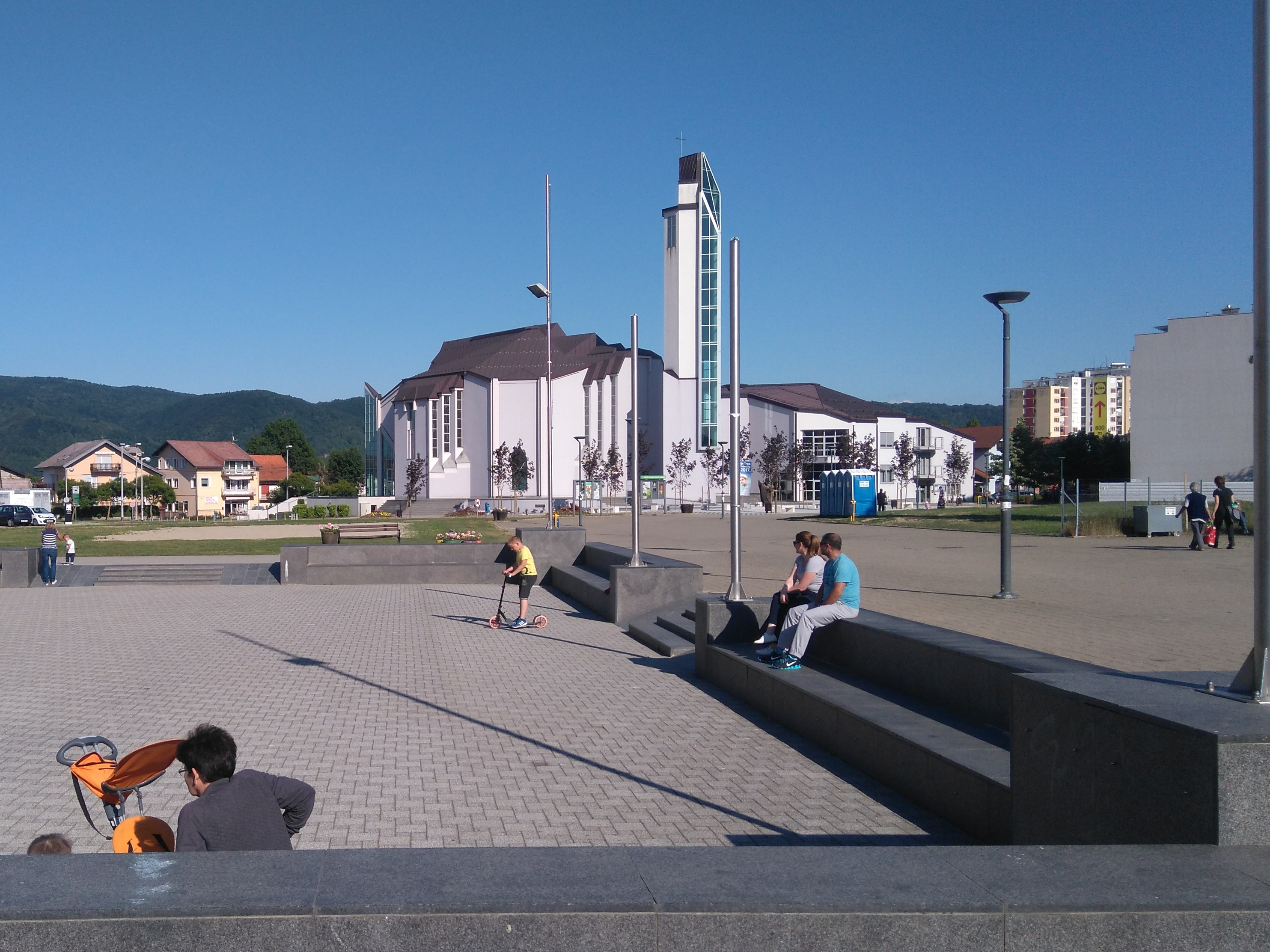 Trg Ivana Pavla II